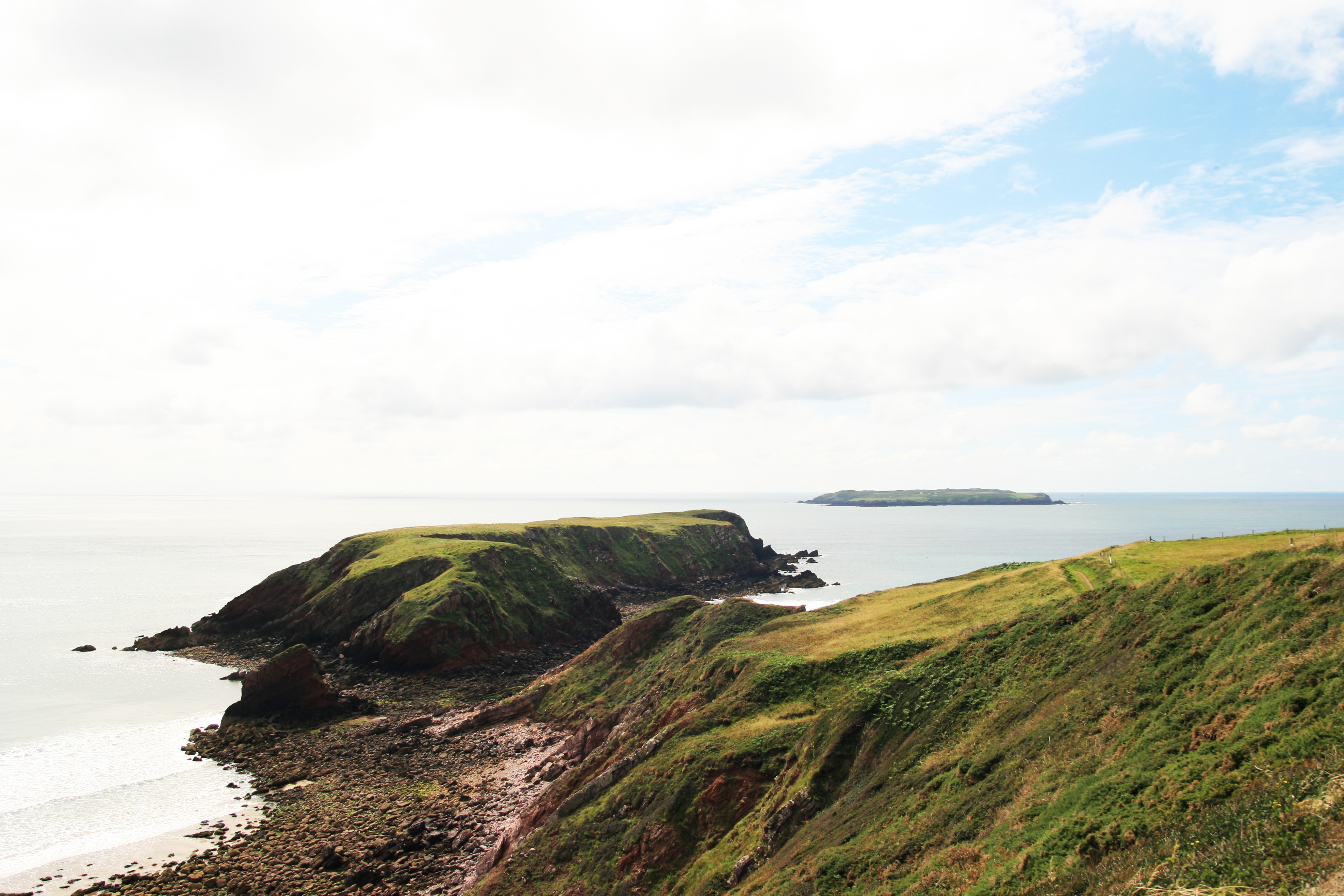 Gateholm tidal island. Pembrokeshire, Wales.